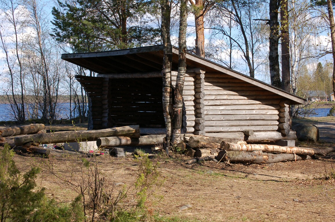 a Finnish 'laavu' (lean-to) on Rivinnokka, Haukipudas